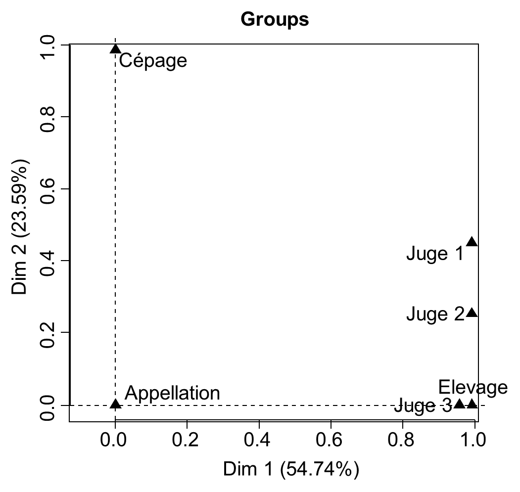 Figure 4 de l'article Napping